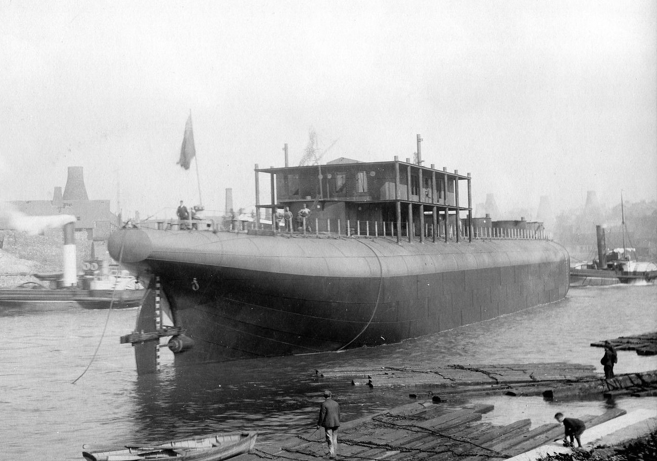 The whaleback steamer Sagamore was built in 1893, she was the only British built whaleback ever to see service. She sank on May 4, 1917 when she was torpedoed off the coast of Spain